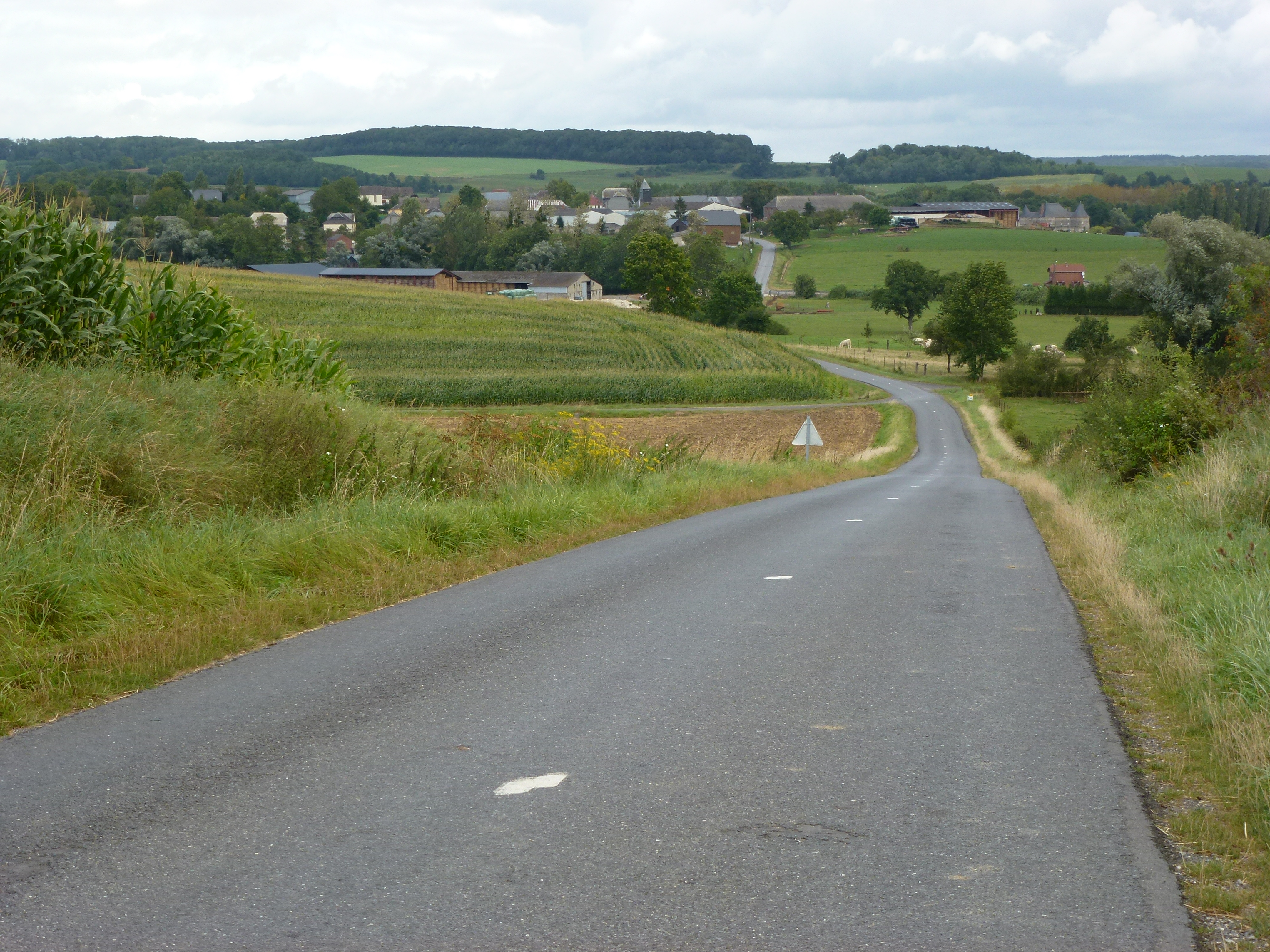 Doumely-Bégny (Ardennes) paysage avec vue sur Doumely